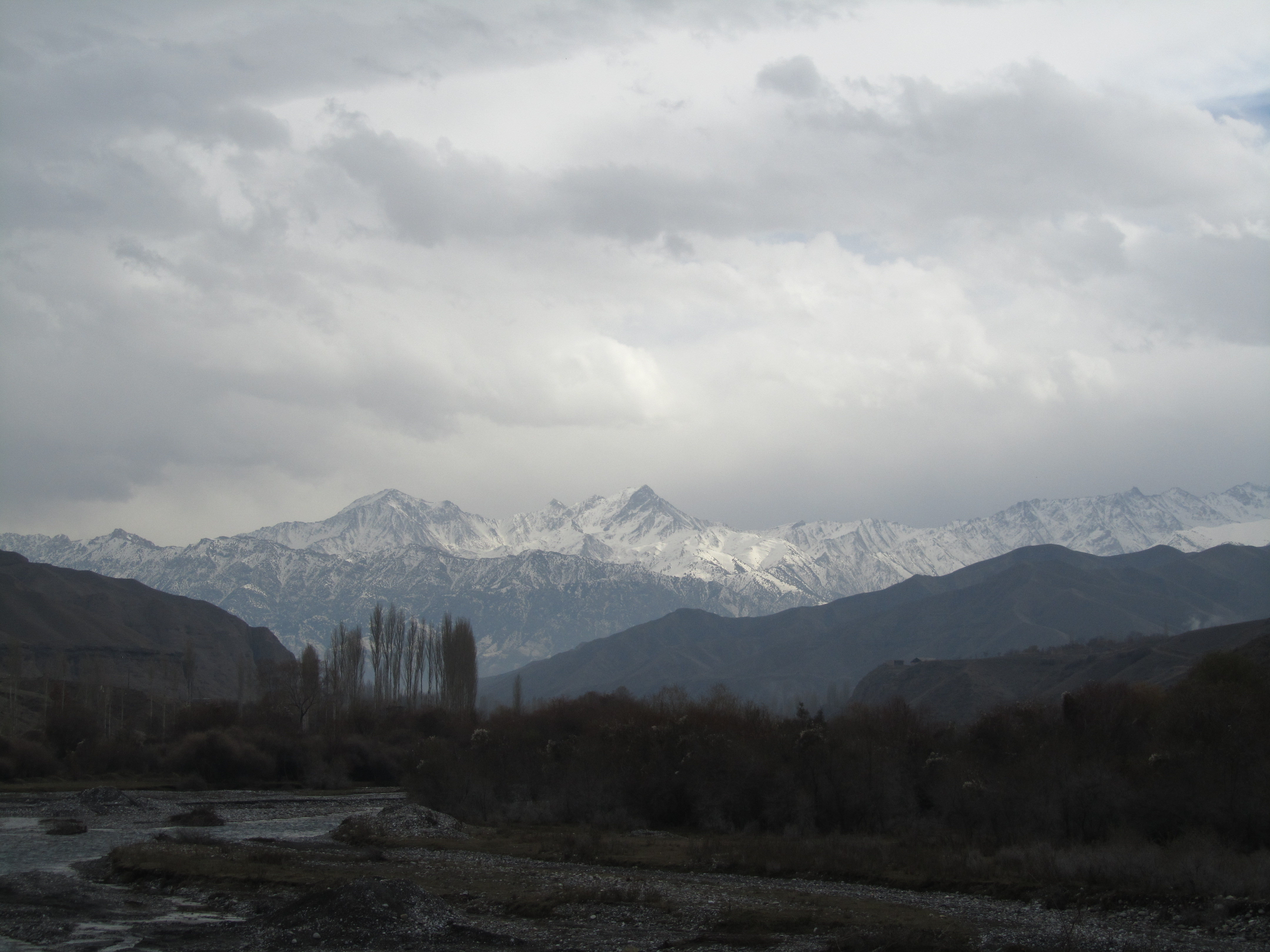 Mountains of the Turkestan Range as seen from the village of Chuyanchy. Leilek District, Kyrgyzstan.